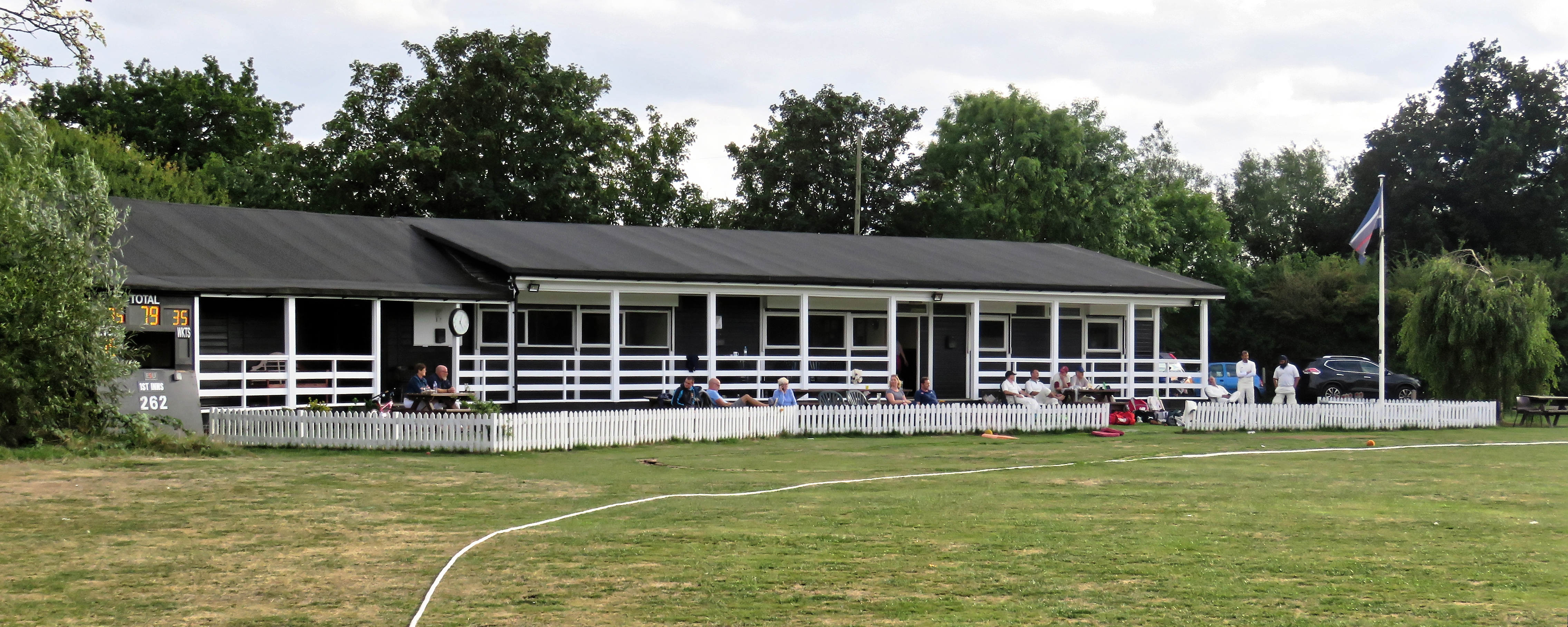 Cricket pavilion at Buckhurst Hill cricket ground during a Sunday public friendly cricket match between Buckhurst Hill Cricket Club Sunday B and Dodgers Cricket Club at Buckhurst Hill, Essex, England.Mobile device view: Wikimedia (as at 2018) makes it difficult to immediately view photo groups related to this image. To see its most relevant allied photos, click on Buckhurst Hill Cricket Club, and this uploader's Cricket photos. You can add a beta click-through 'categories' button to the very bottom of photo-pages you view by going to settings... three-bar icon top left.Desktop view: Wikimedia (as at 2018) makes it difficult to immediately view the helpful category links where you can find images related to this one in a variety of ways; for these go to the very bottom of the page. This image is one of a series of date and/or subject allied consecutive photographs kept in progression or location by file name number and/or time marking.Camera: Canon PowerShot SX60 HSSoftware: File lens-corrected, optimized, perhaps cropped, with DxO PhotoLab, and likely further optimized with Adobe Photoshop CS2.